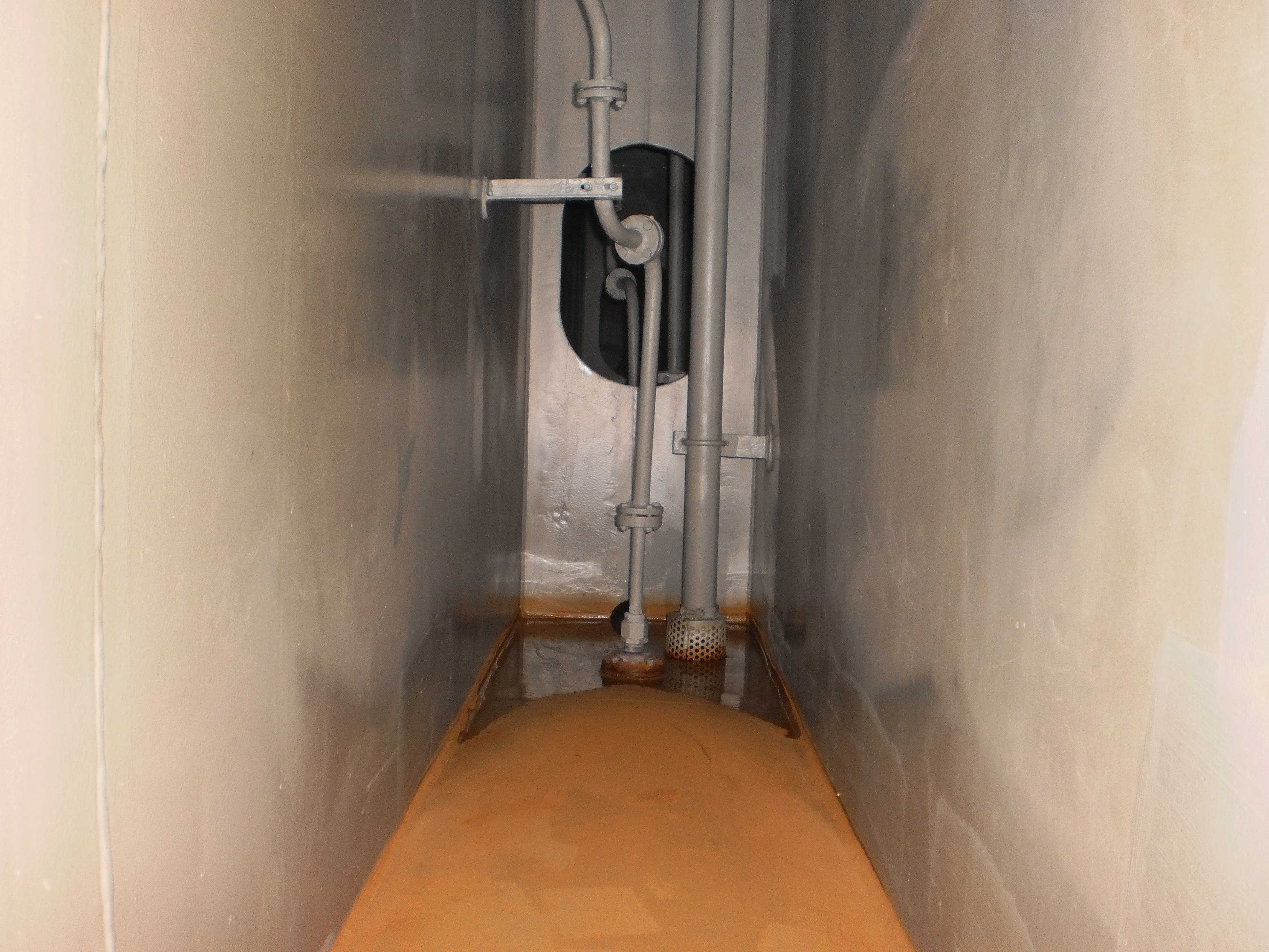 Inside of cofferdam (small tank on ship). Smaller pipe is for installing echosounder, big pipe is for emptying of cofferdam.